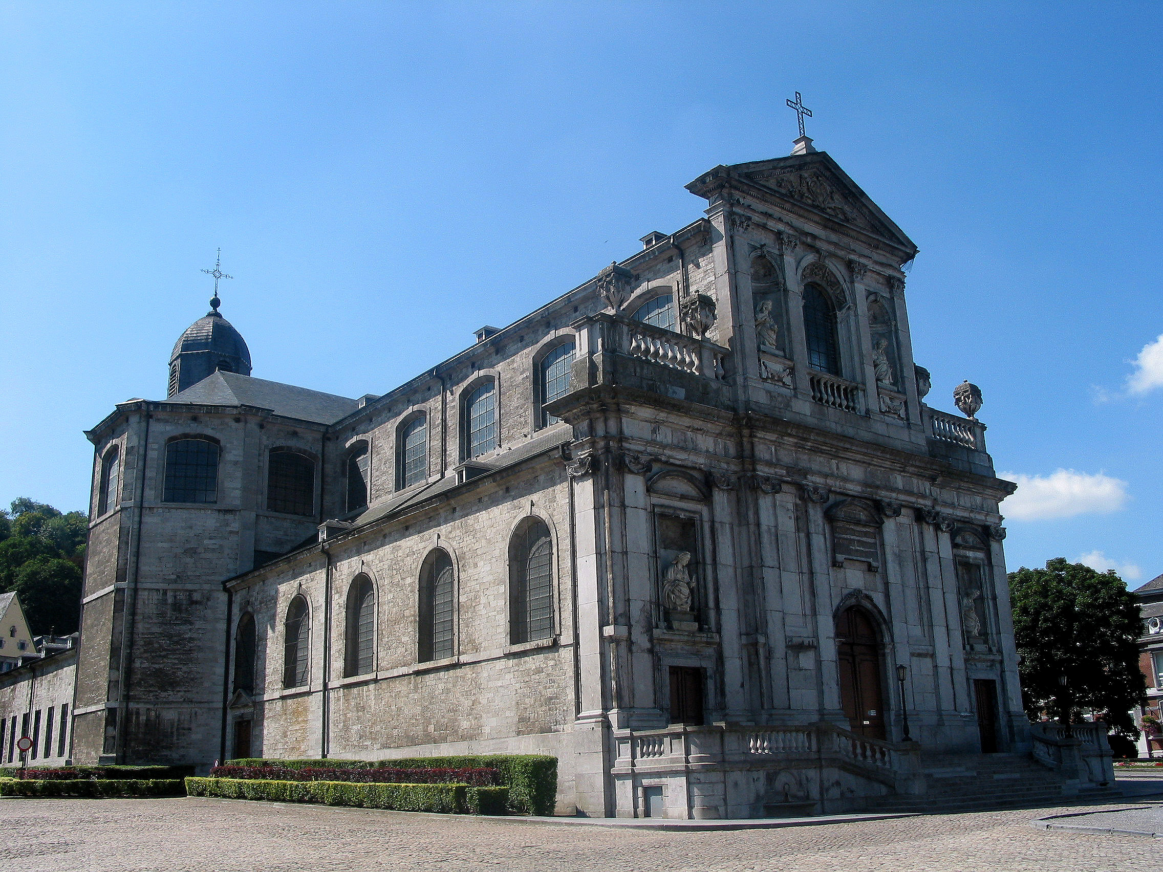 Andenne (Belgium), the St. Begge collegiate church (1773). 59″ N, 5° 06′ 02.5″ E